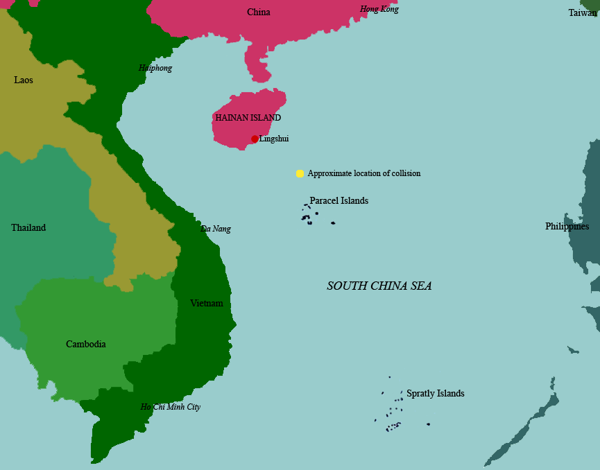 Map of South china sea showing location of the Hainan Island incident. Used File:Schina sea 88.png and Google Maps as references